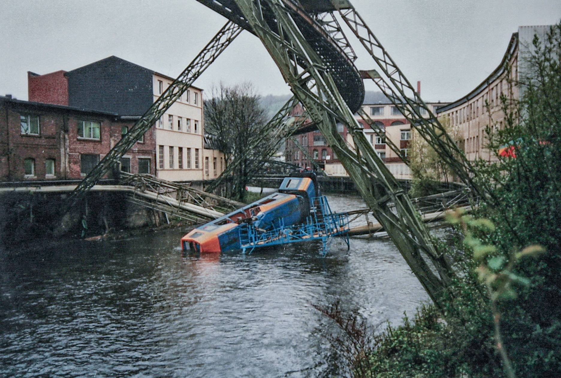 Aftermath of the 12 April 1999 derailment of a Wuppertal Suspension Railway train, the result of track-maintenance equipment not being removed from the line before the resumption of normal traffic..